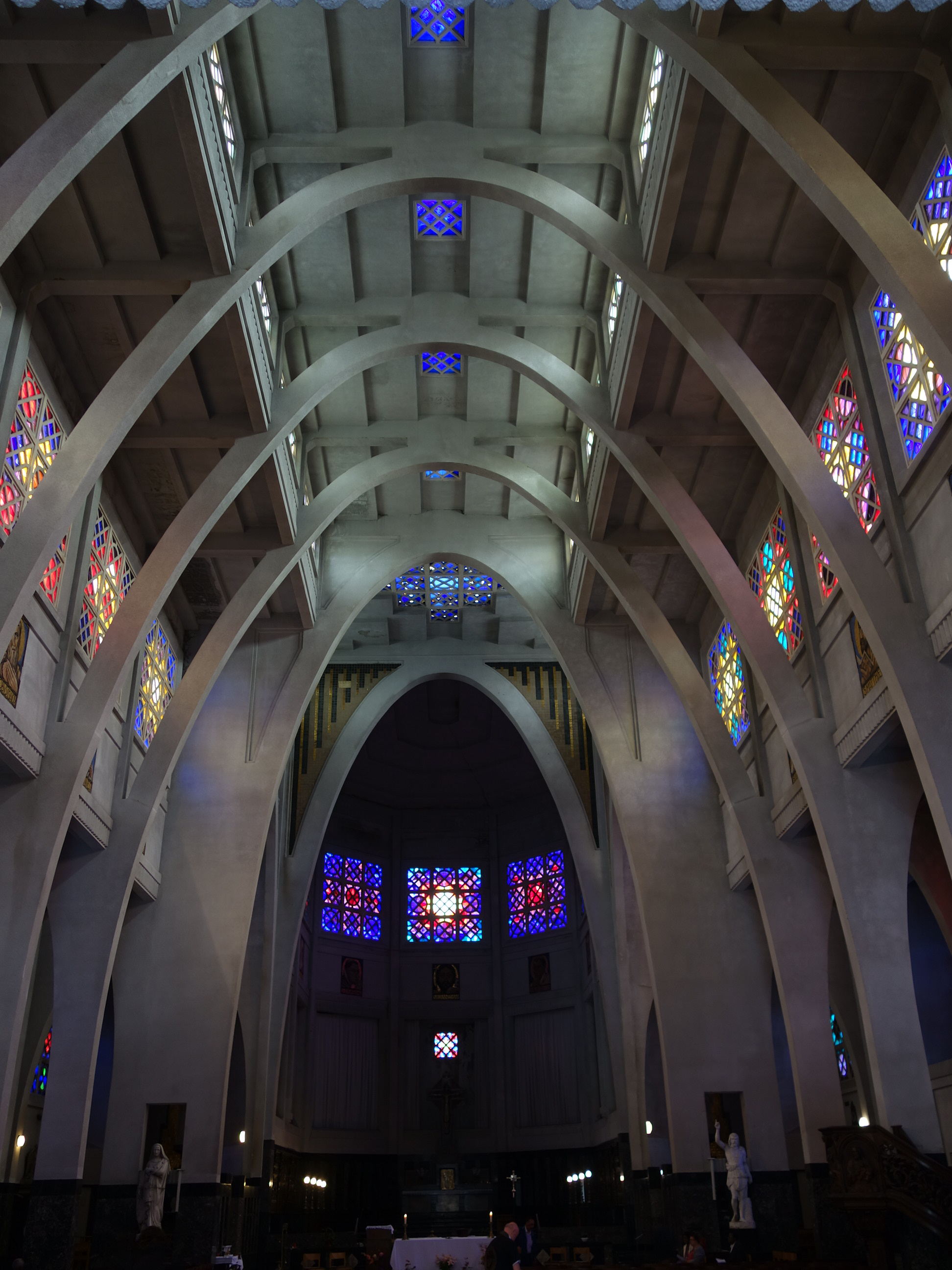 Interior of the Saint John the Baptist Church (Molenbeek, Brussels)